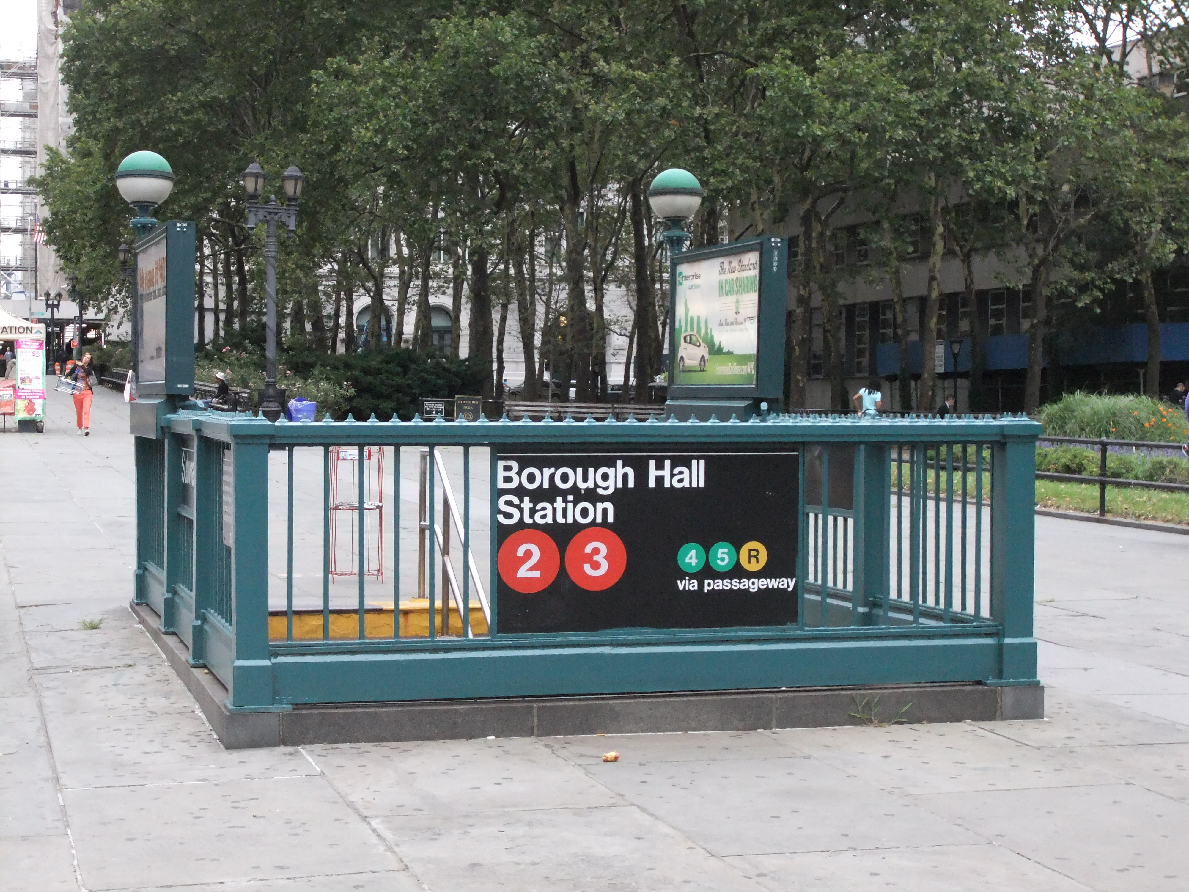 Stair at Columbus Park to Court St-Borough Hall Station (4th Avenue/Eastern Pkwy/Bway-7th Avenue) in Brooklyn, NY.